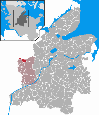 Locator maps of municipalities in Schleswig-Holstein - District Rendsburg-Eckernförde